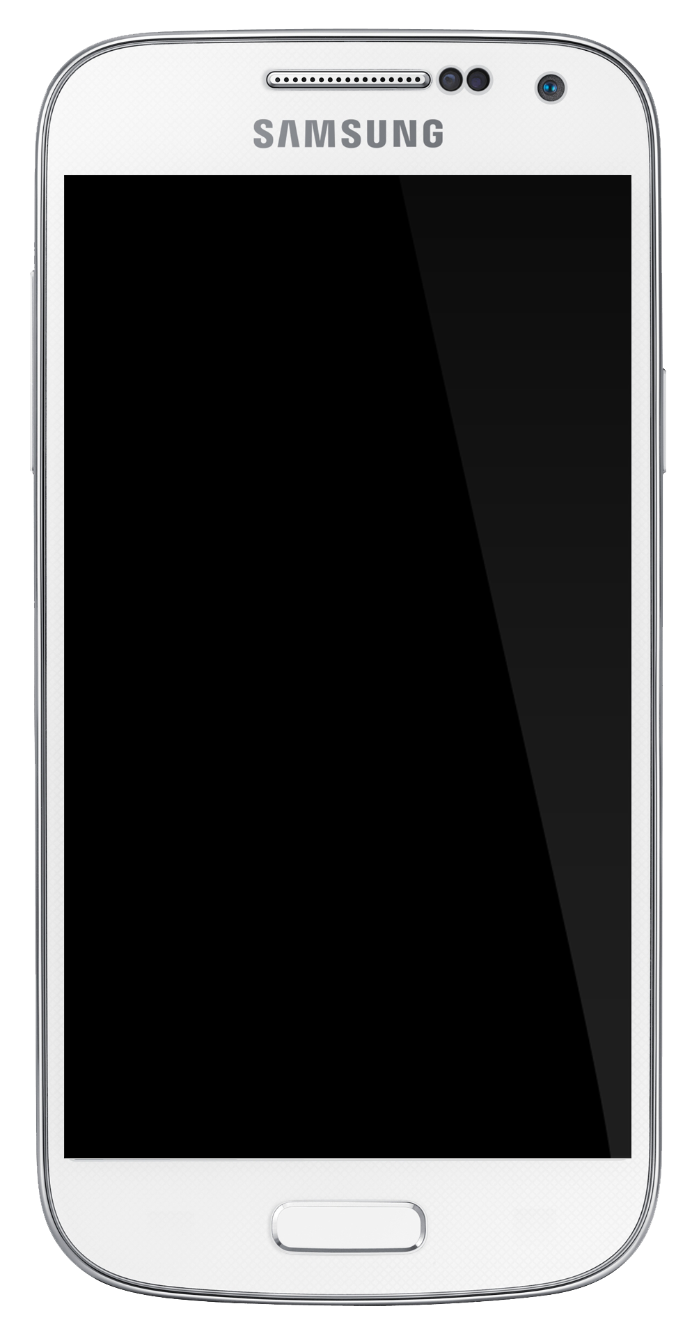 Samsung Galaxy S4 mini render